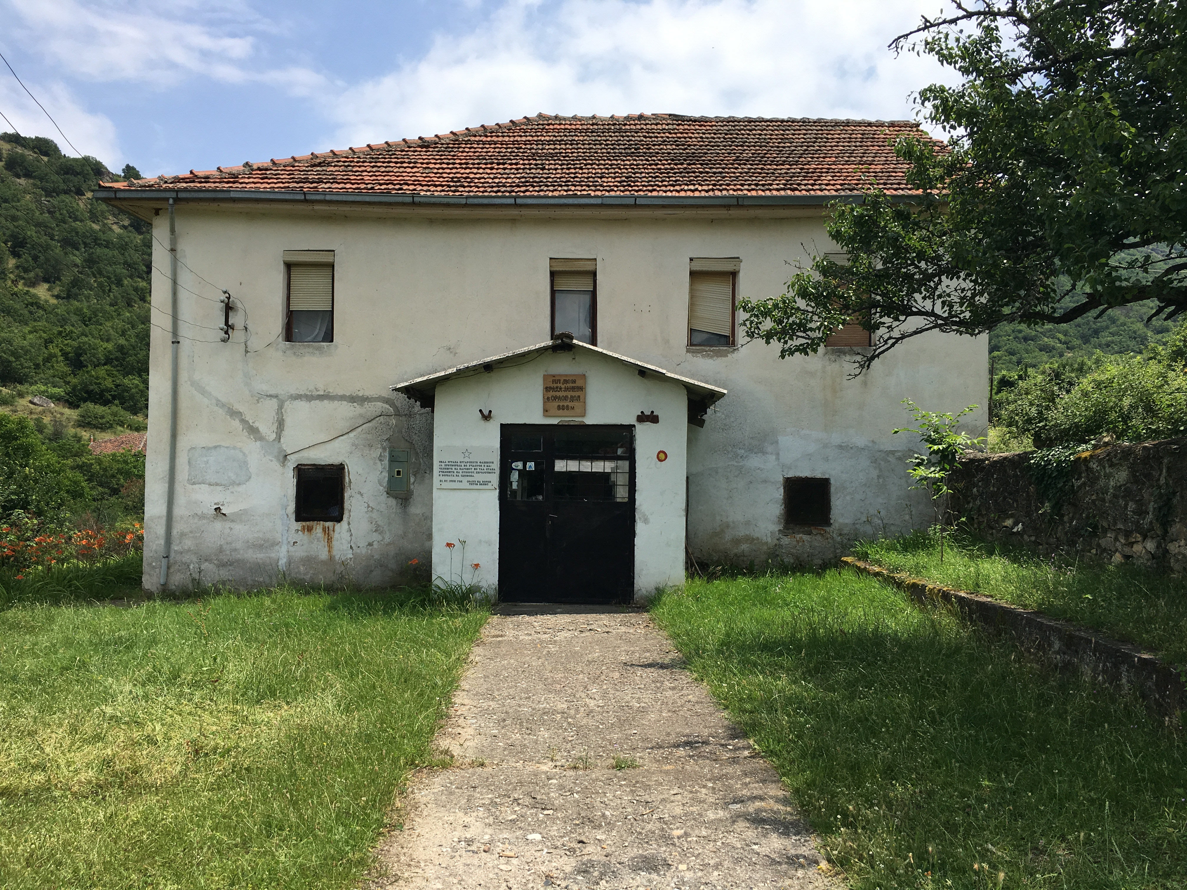 Mountain hut in the village of Oraov Dol